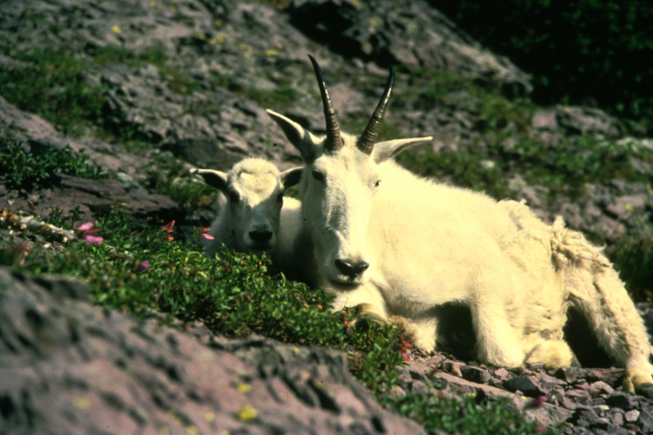 Mountain Goat